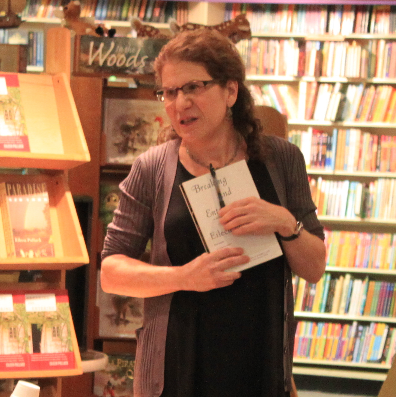 Novelist Eileen Pollack at a book signing event for her novel Breaking and Entering an Nicola's Books, Ann Arbor, Michigan, January 18, 2012